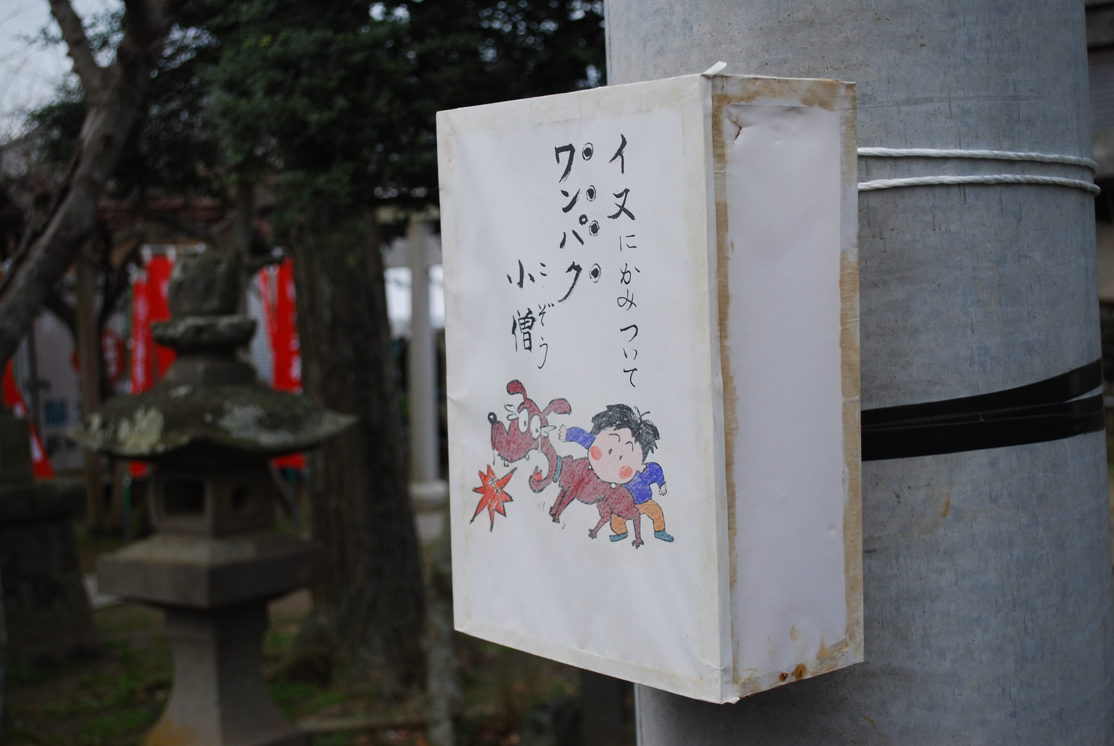 Jiguchi-lamp with a paper shade,Jiguchi-andon,Funado,Katori-city,Japan